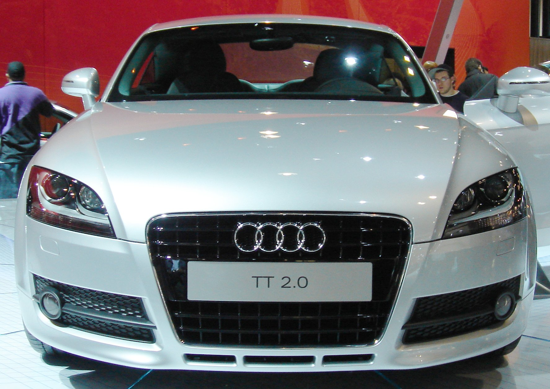 The second-generation Audi TT, highlighting its grille.